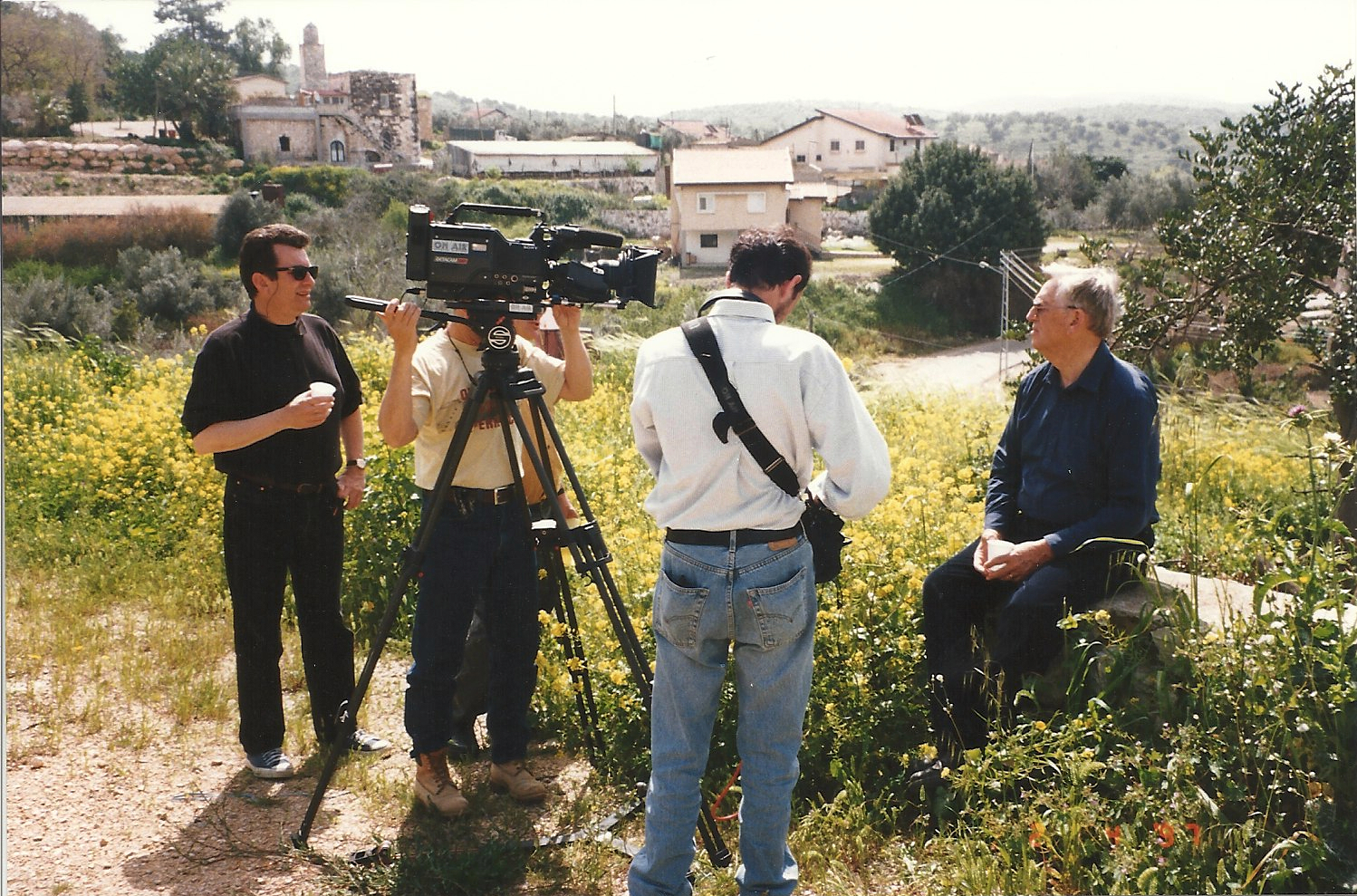 Brunner films an interview with Mordechai Bar-On in abandoned village Az-Zakariyya during production of Al-Nakba: The Palestinian Catastrophe 1948.